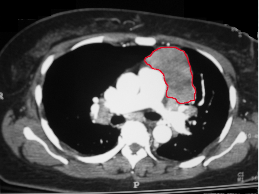 CT scan of the chest revealing a large necrotic mass in the left anterior mediastinum (later proven to be a thymoma) and bilateral hilar lymphadenopathy (from concurrent sarcoidosis).